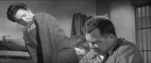 Screenshot of Elvis Presley and Mickey Shaughnessy from the trailer for the film Jailhouse Rock